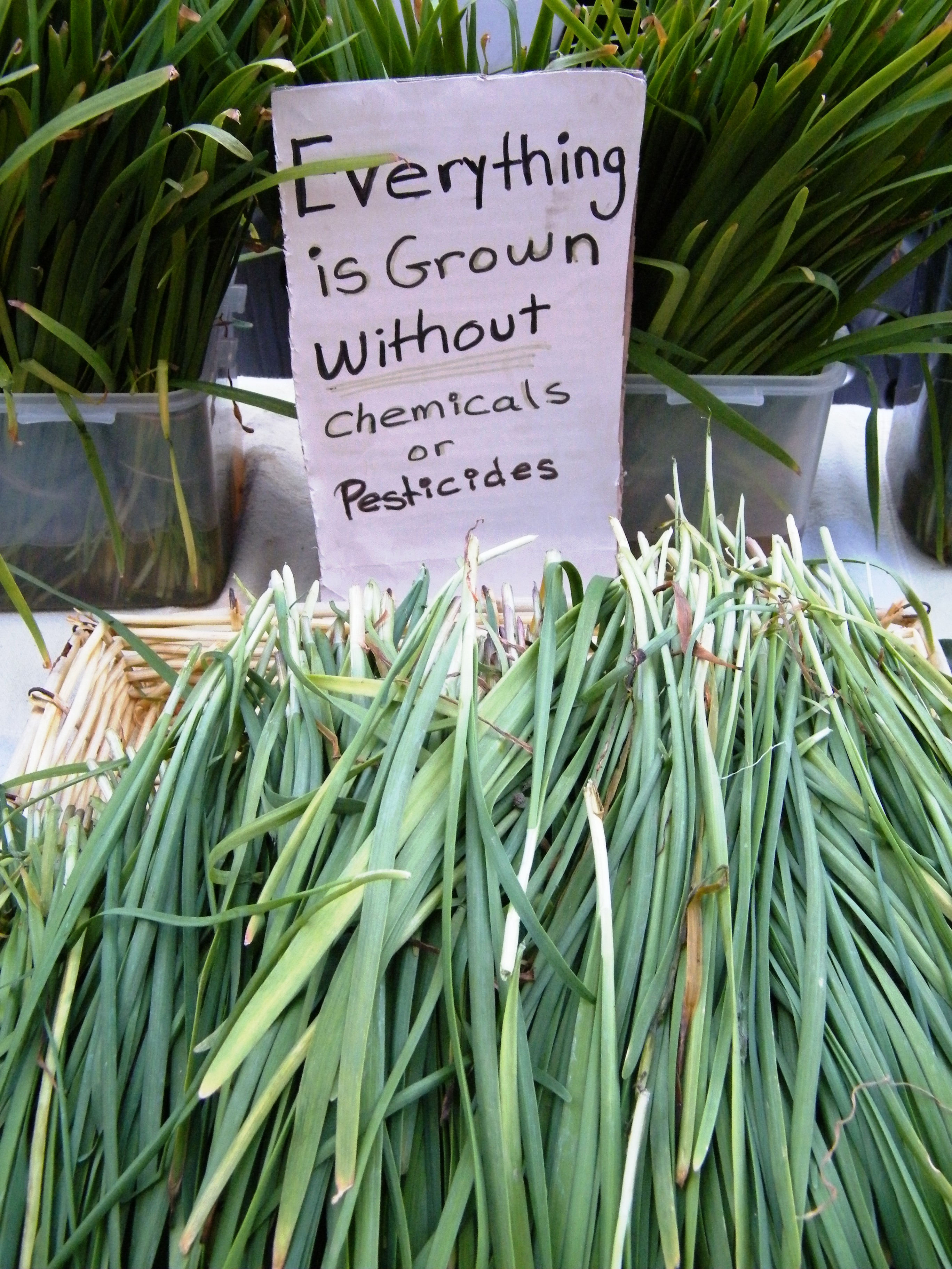 Sign at the Sonoma Farmer's Market, Sonoma, California